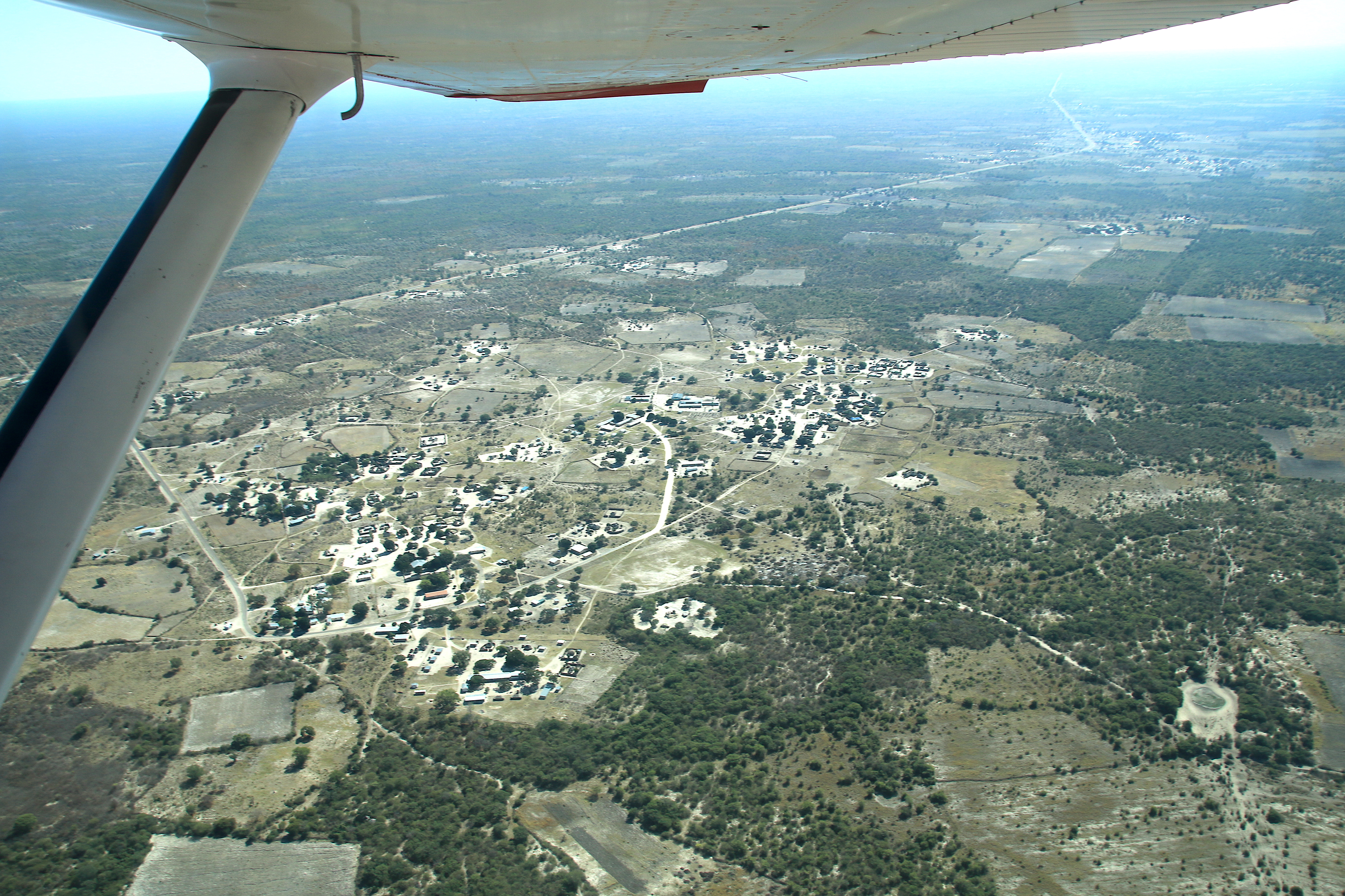 Chinchimane (2019)